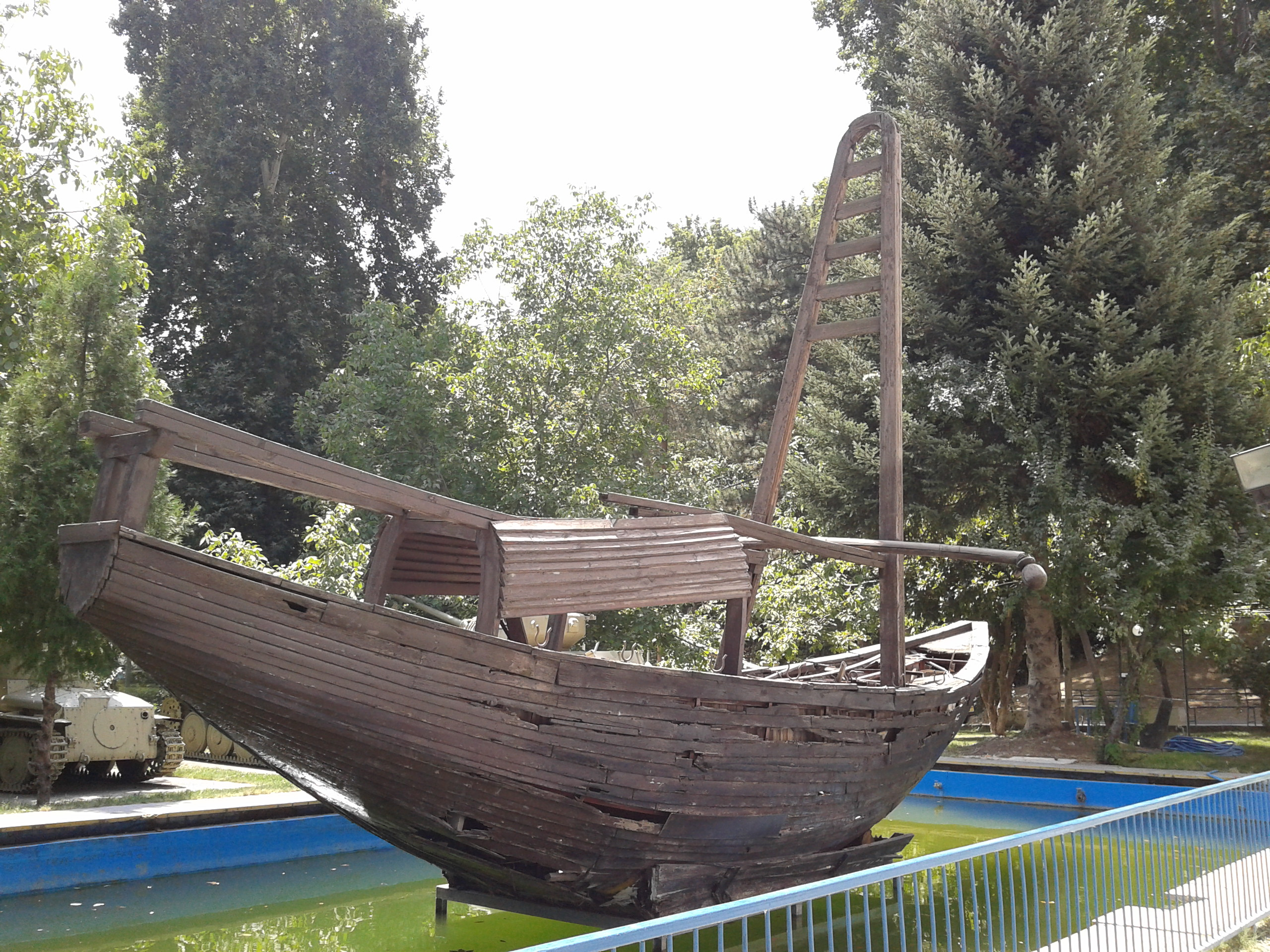 The ship was built to 2,500 year celebration of the Persian Empire, Military Museum, Sa'dabad Palace